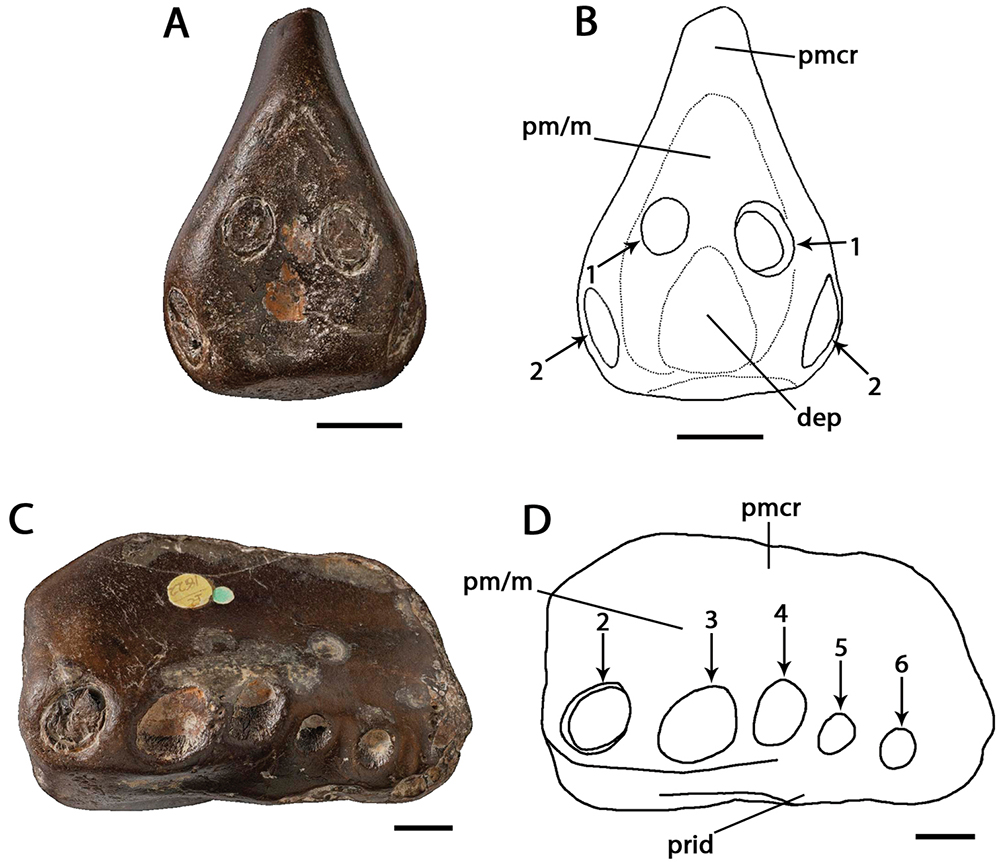 Coloborhynchus clavirostris. Holotype, NHMUK PV R 1822 (late Berriasian / Valanginian, Hastings Group), anterior part of the rostrum A anterior view B respective line drawing C left lateral view D respective line drawing. Abbreviations: dep – depression, m – maxillae, pm – premaxillae, pmcr – premaxillaery crest, prid – palatal ridge. Arrows and numbers indicate alveoli or teeth and their respective position. Scale bar = 10 mm. Photos courtesy of The Natural History Museum.